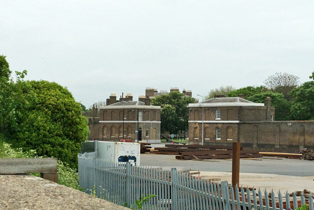 North and South Gatehouses, Sheerness Dockyard